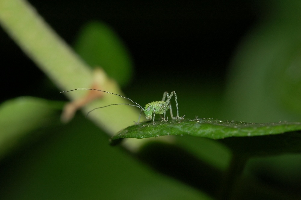 Leptophyes punctatissima, Nied, Frankfurt/Main, Germany